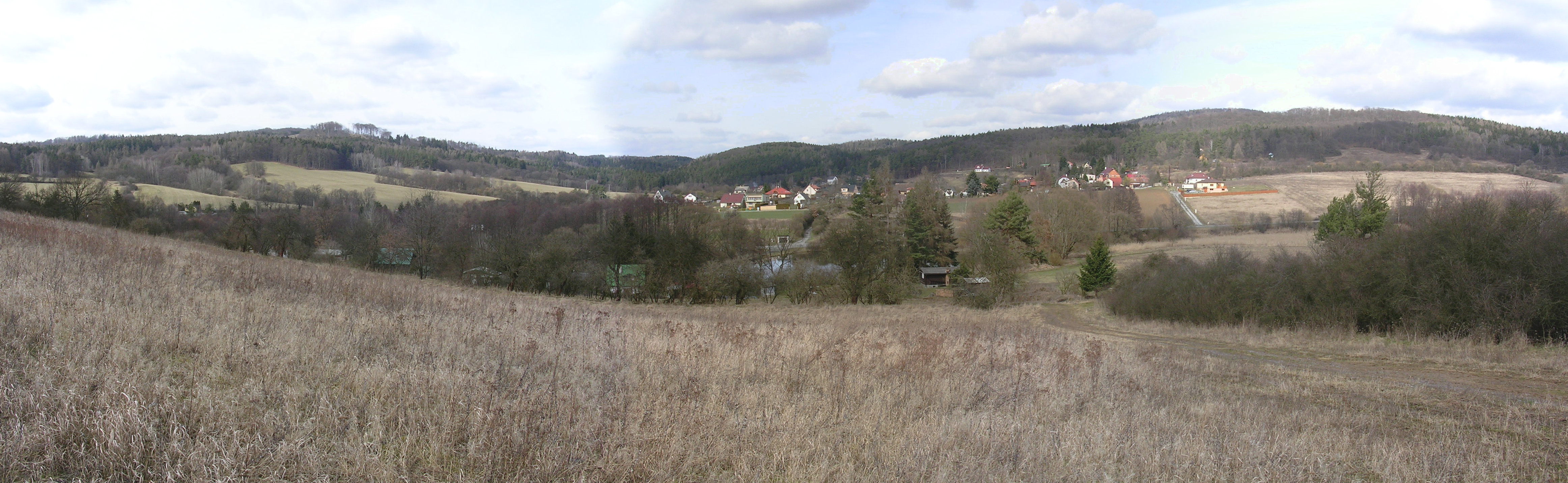 Týnec nad Sázavou-Čakovice, the Czech Republic.